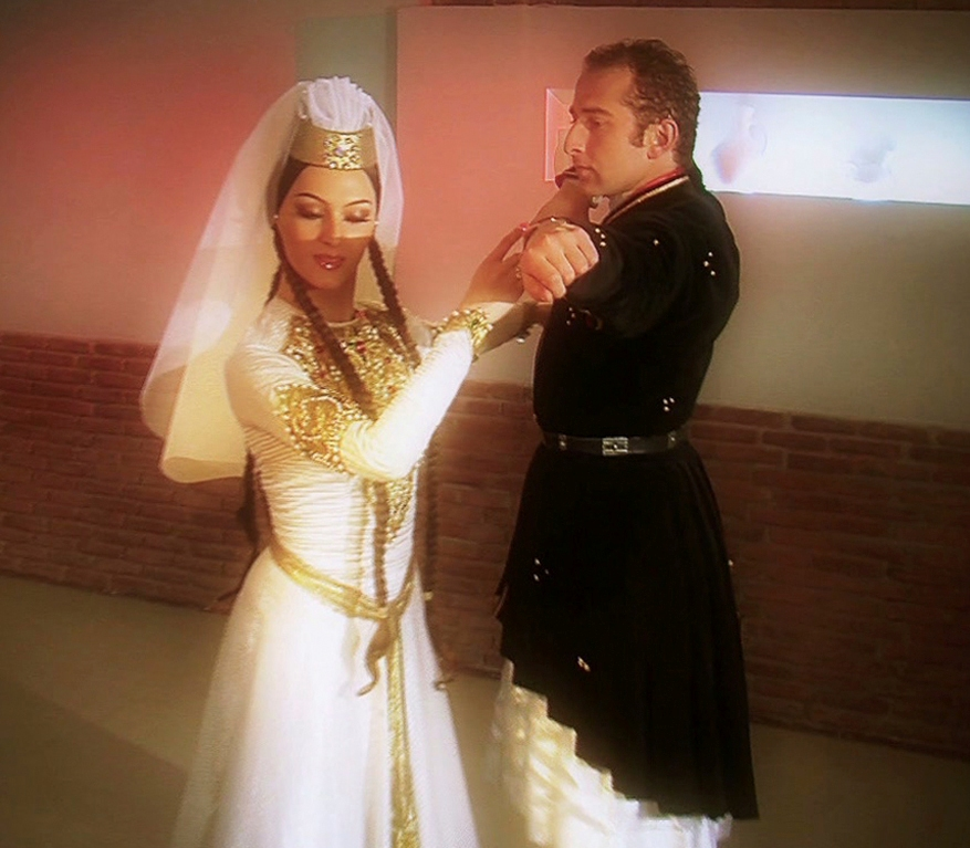 Georgian Folk Dance, Qartuli or kartuli